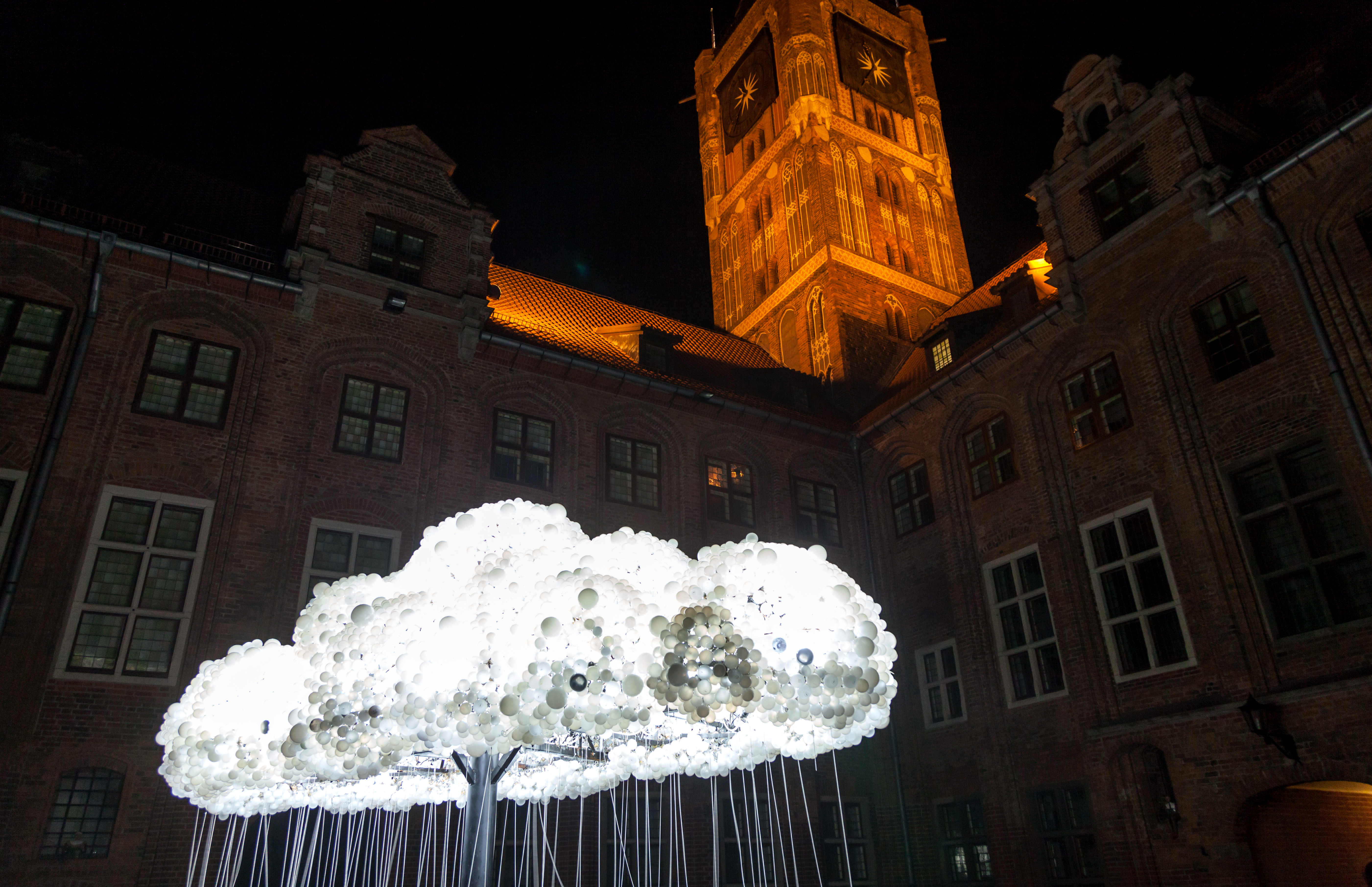 International Light Festival Bella Skyway, Toruń 2015. Interactive sculpture Cloud on courtyard of Old Town Hall.